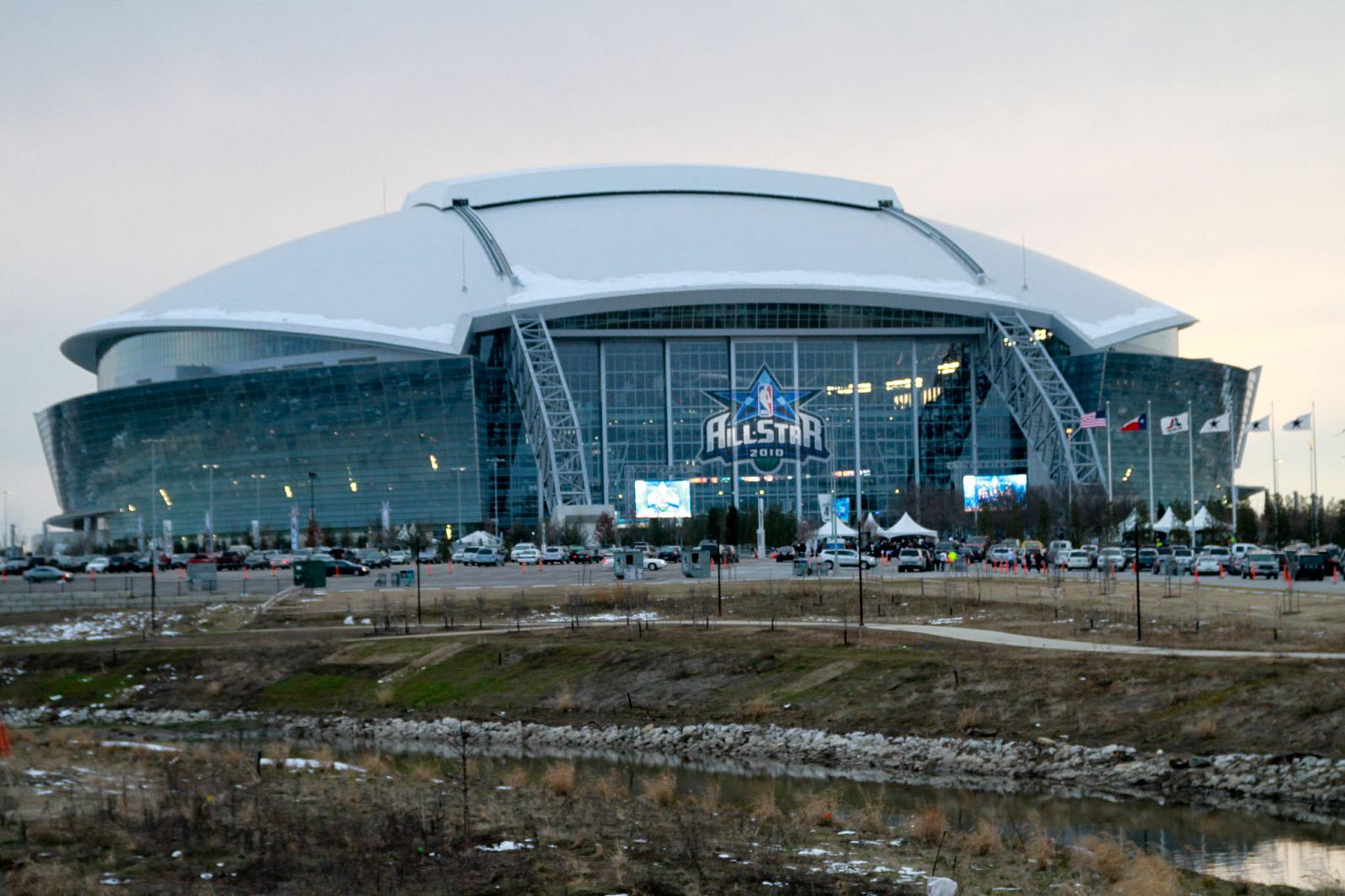 Exterior of Cowboys Stadium in Arlington, Texas before the en:2010 NBA All-Star Game. Licensed under a creative commons share-alike. Use freely but give attribution to Rondo Estrello, Dallas Art Nerd, and link to